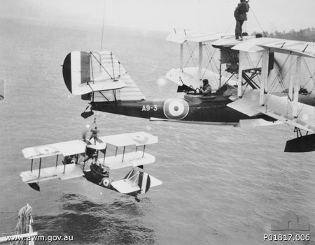 AWM caption : "Australia, 1926-1935. Two Supermarine Seagull III seaplanes of No. 101 Fleet Co-operation Flight RAAF being hoisted out of the water and aboard the seaplane carrier HMAS Albatross (not in view) by means of the ship's cranes. The amphibious aircraft have just returned from a flying mission. One crewman from each seaplane is riding on the top wing of the aircraft, after having attached the cable of the crane to the seaplane. The aircraft in the foreground is no. A9-3"